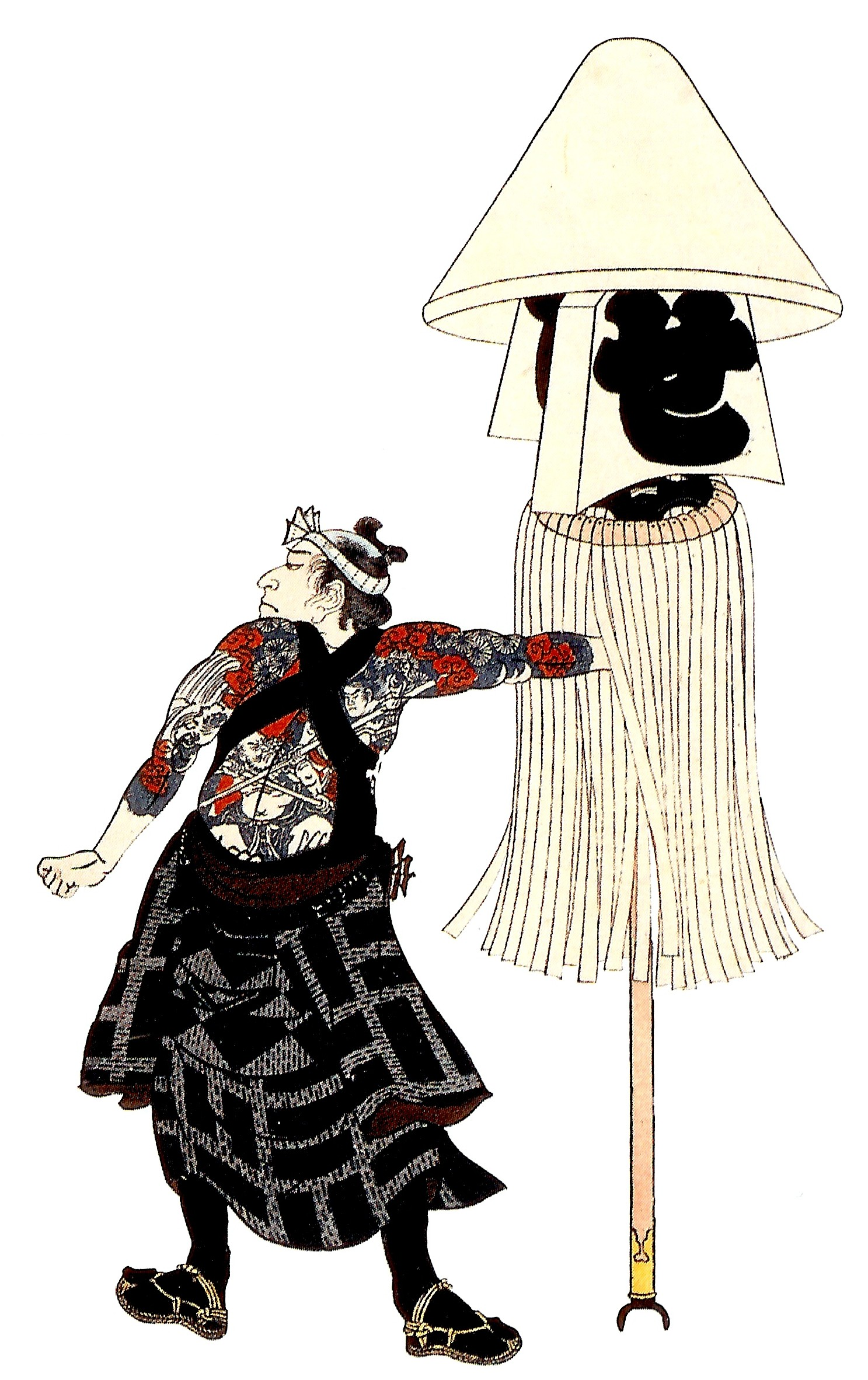 Edo Fire brigade enblem